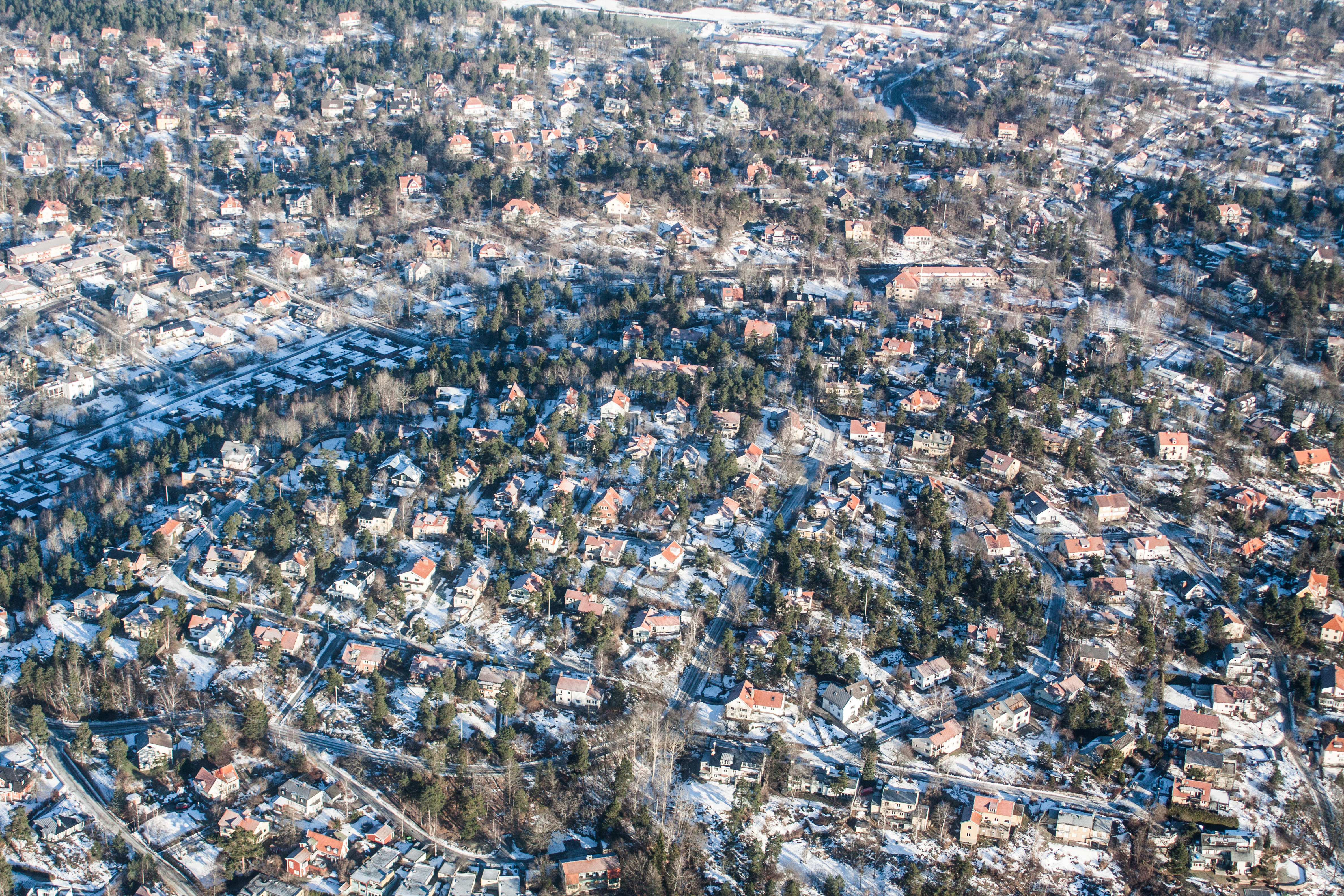 Aerial photo of Stocksund in Danderyd, Sweden